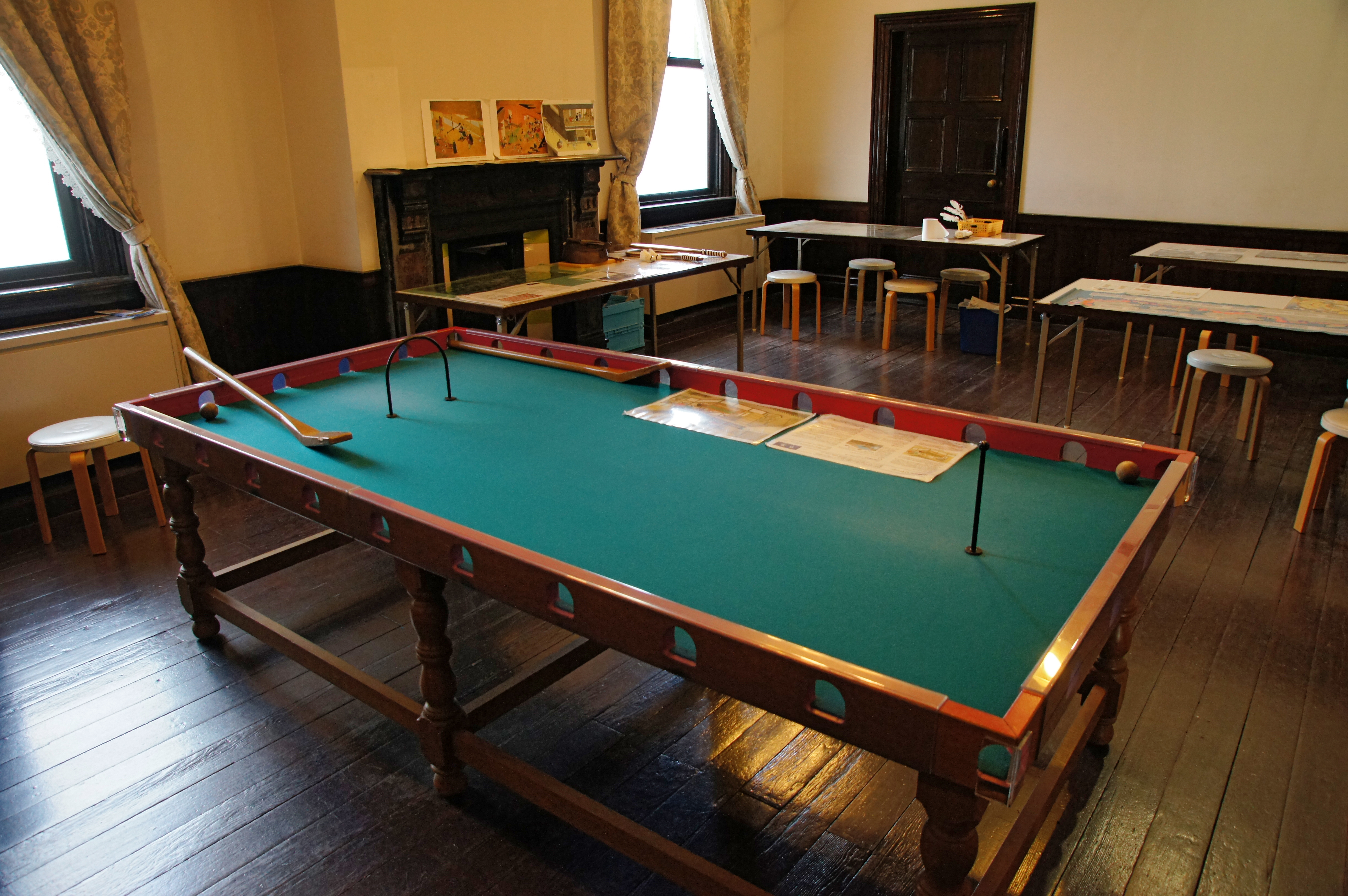 Former Nagasaki International Club in Dejima in Nagasaki, Nagasaki prefecture, Japan